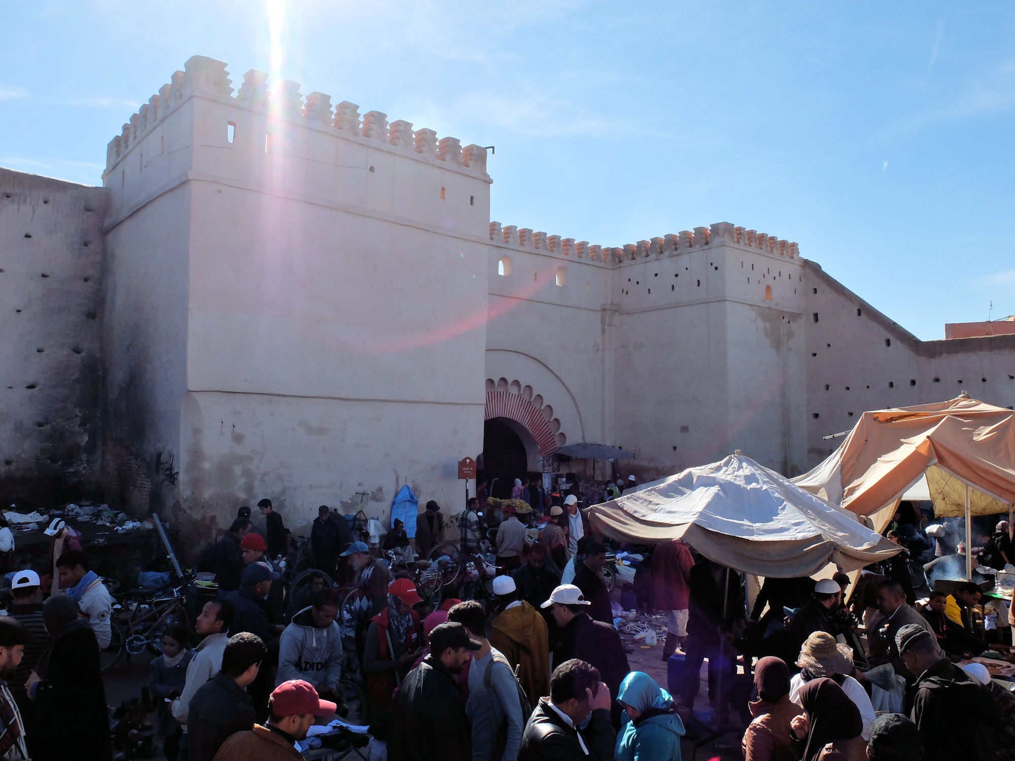 Bab el-Khemis, the northern gate of the medina of Marrakech. The gate is named after the Thursday (el-Khemis) market that historically took place here, and an open-air market still takes place here today.